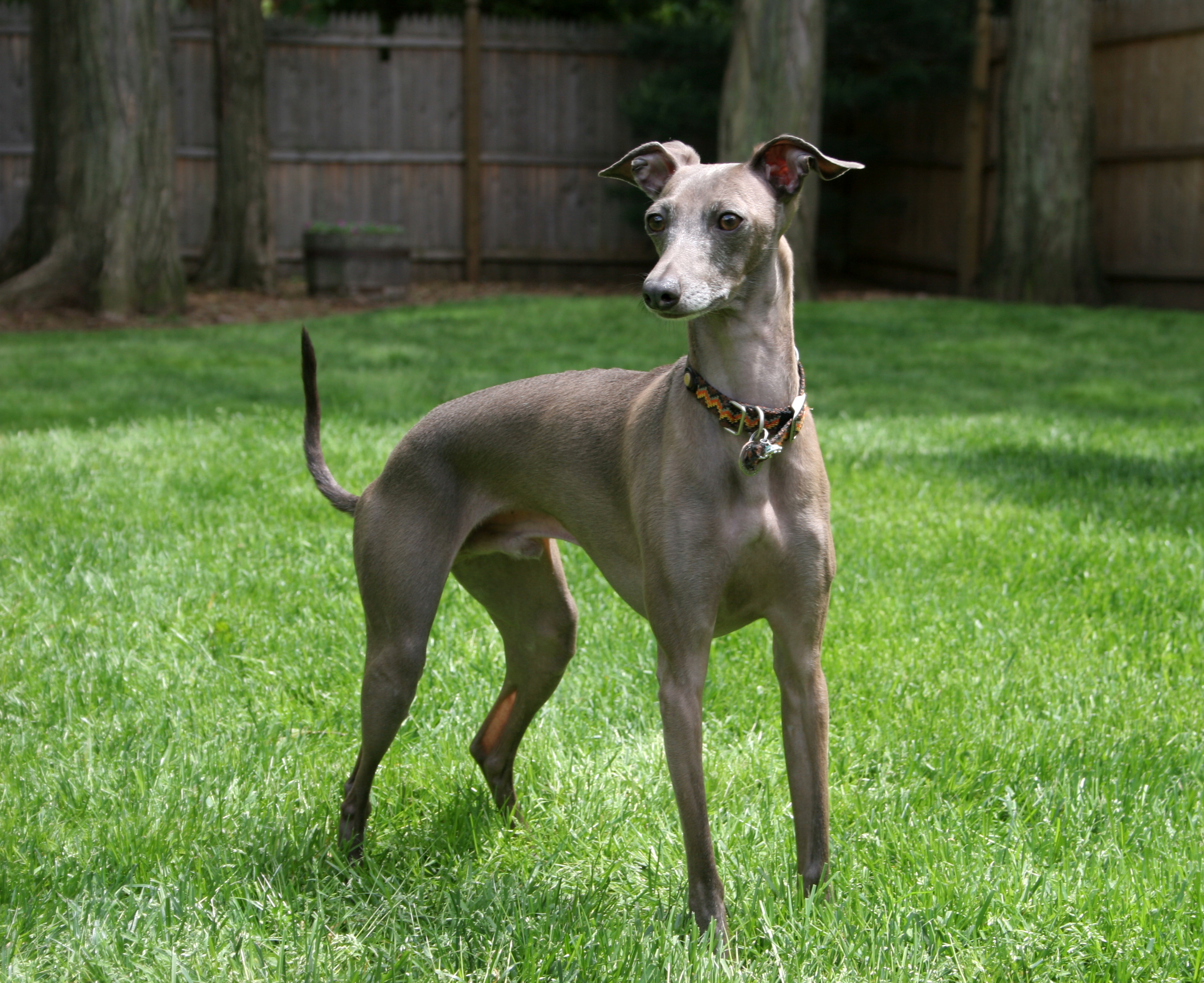 A male Italian Greyhound.